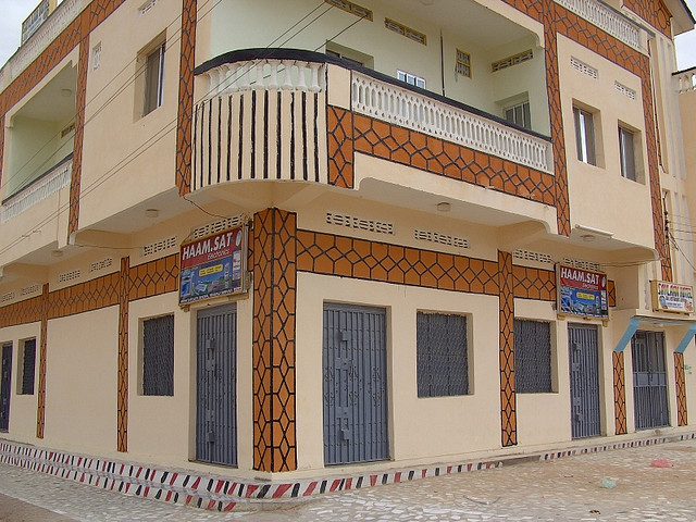 An electronics store in Galkacyo, Puntland, Somalia.